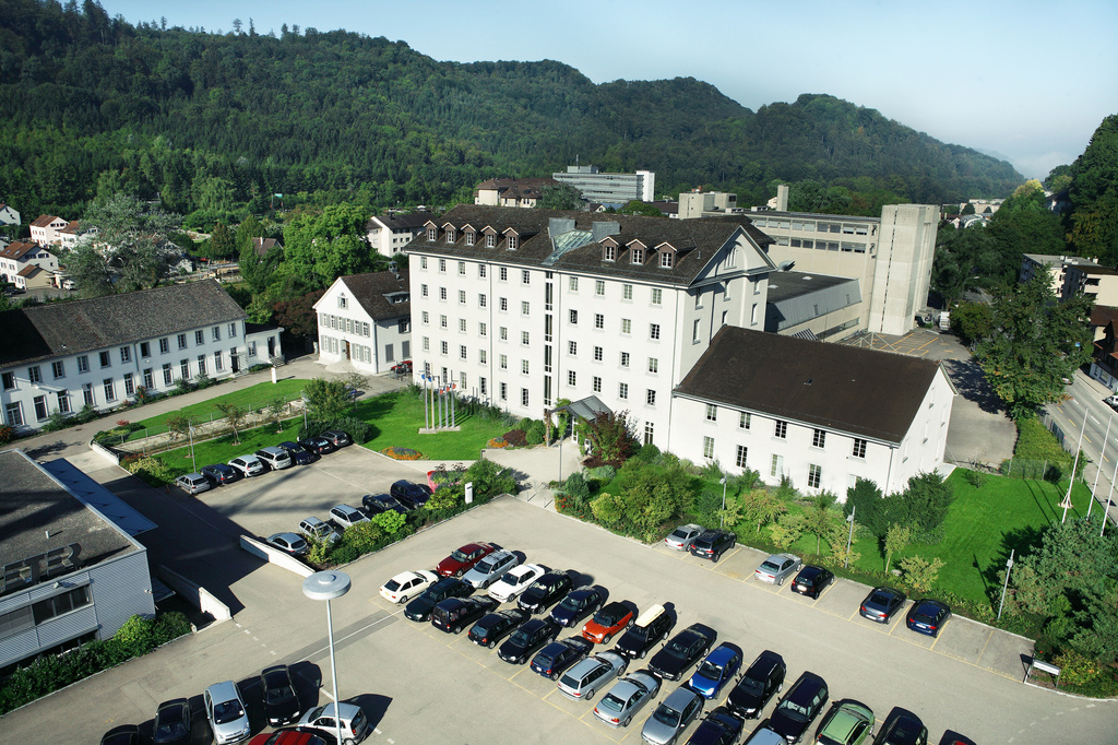 Autoneum Headquarter in Winterthur, Switzerland